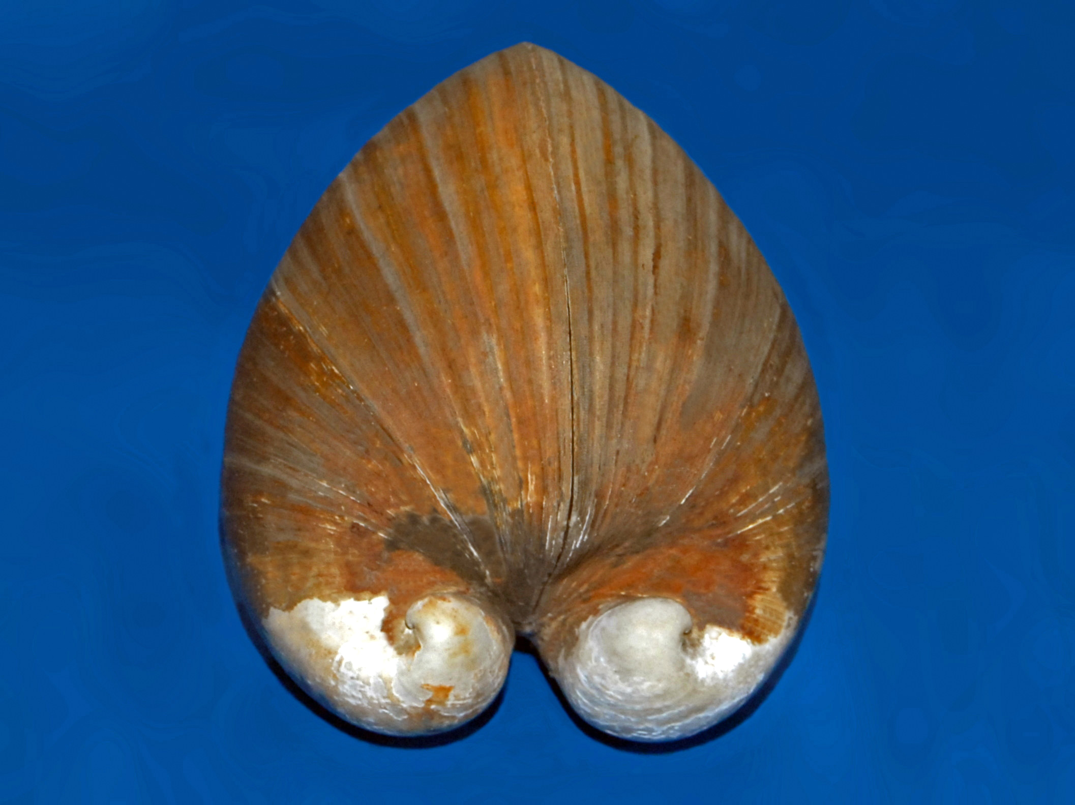 Shell of Glossus humanus from Sicily at the Museo Civico di Storia Naturale di Milano